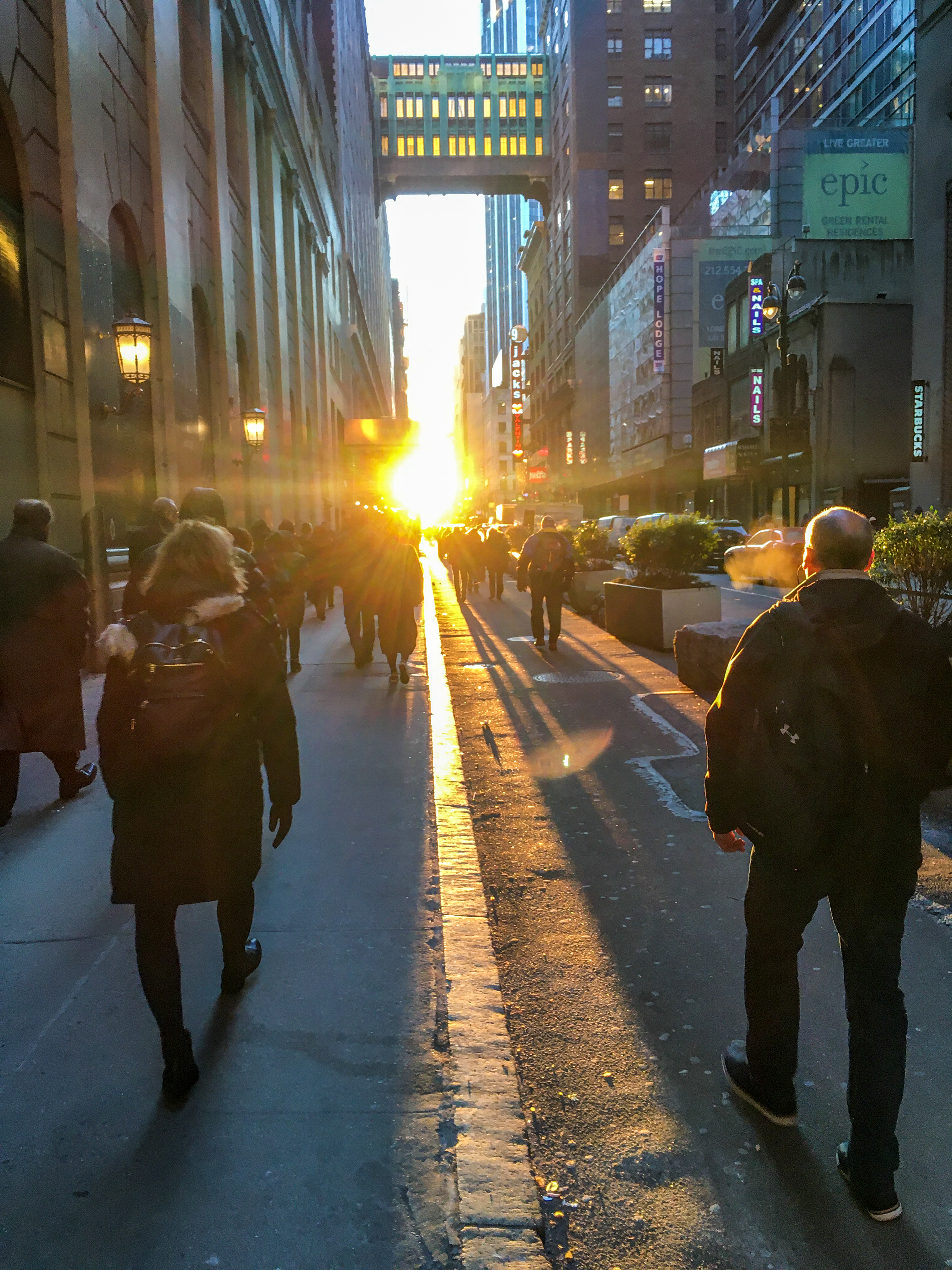 Workers head out of Penn Station into the 2020 Manhattanhenge sunrise on Jan 21st, taken on W 32nd St and 7th Ave